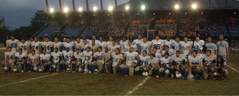 RIo de janeiro Imperadores , Football team